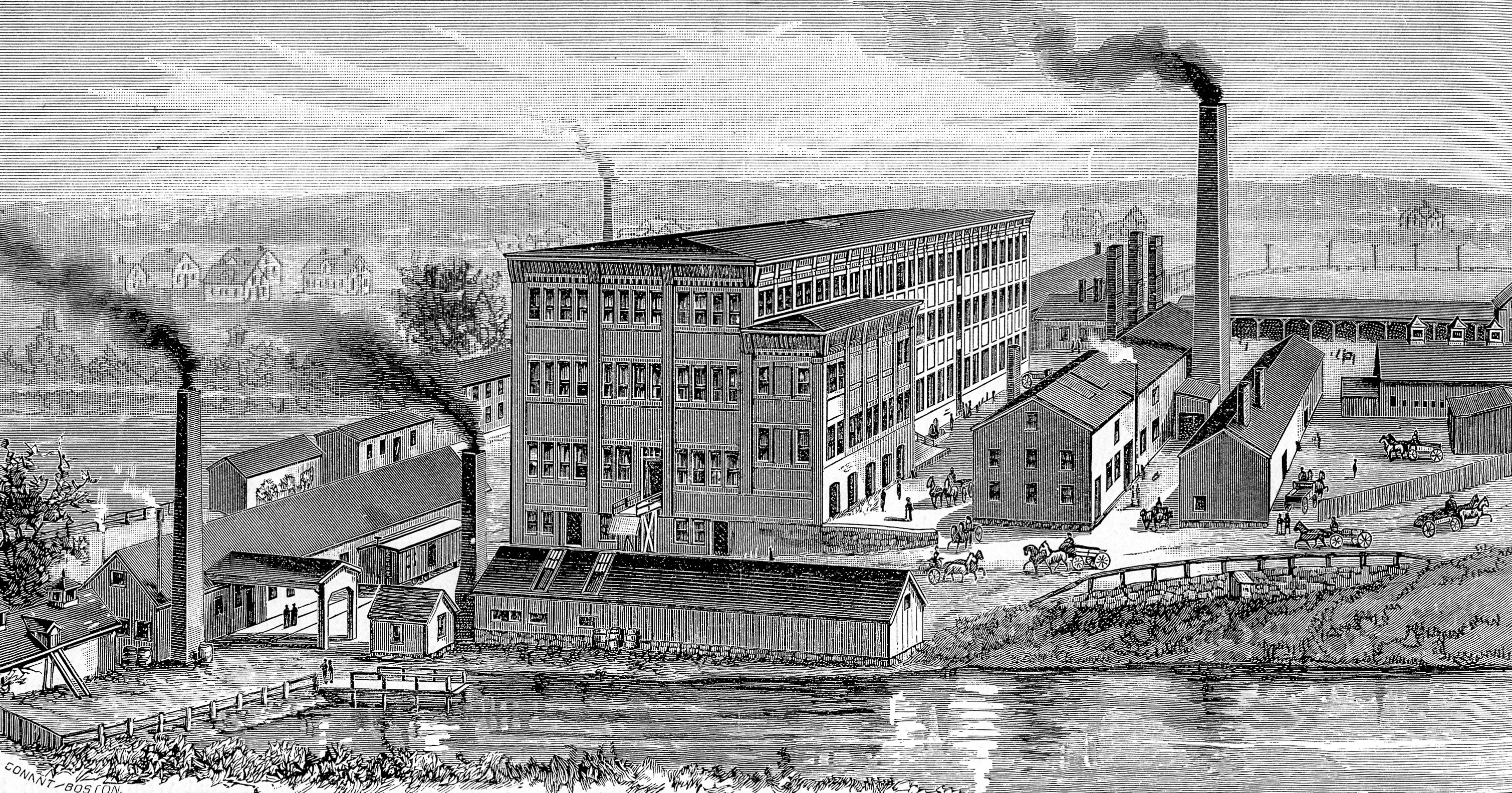 Rumford Chemical Works. Engraving published in The Providence Plantations for 250 Years (1886), pg. 276